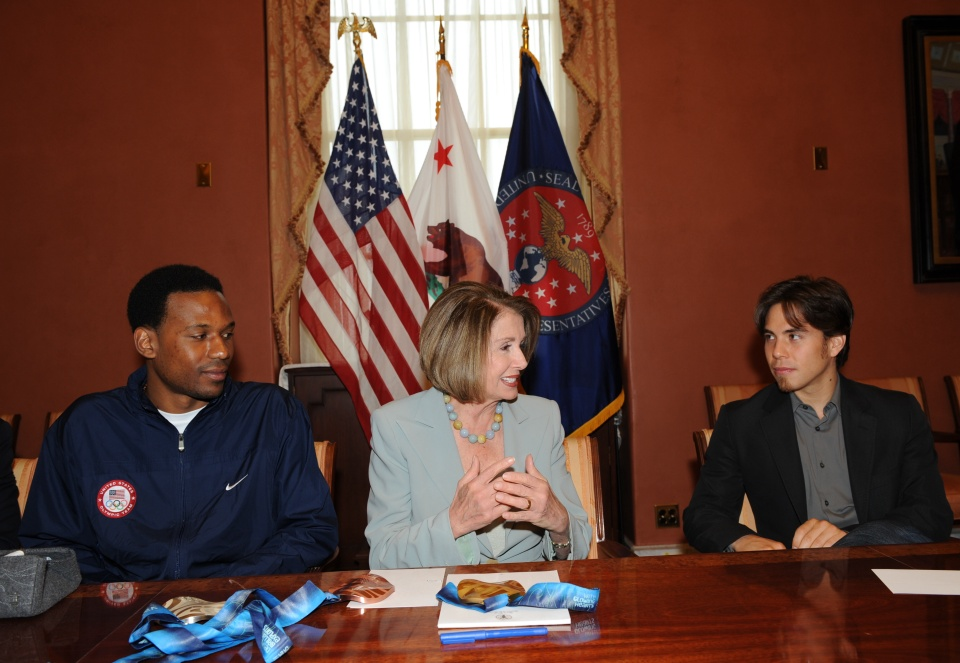 Speaker Nancy Pelosi and Congressman Bart Stupak held a press availability this morning with medal-winning U.S. Olympic athletes Apolo Anton Ohno, Shani Davis, and Allison Baver and Paralympic athlete Allison Jones to discuss the B.J. Stupak Scholarship, a federally-funded scholarship program designed to provide financial assistance to Olympic athletes.